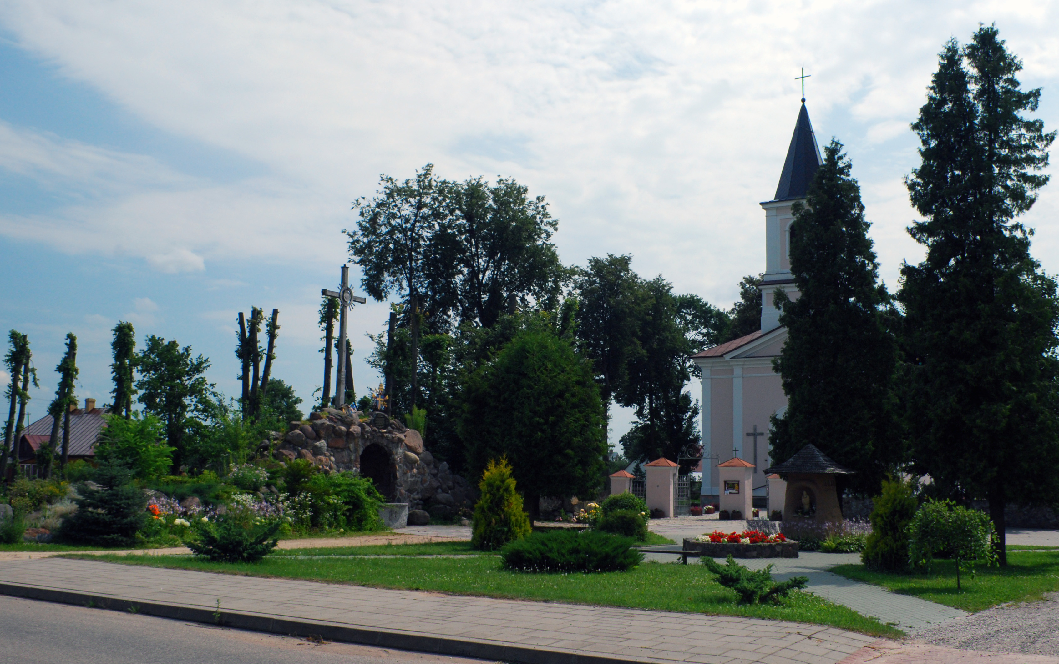 This photo from Podlaskie Voievodeship was taken during Polish Wikiexpedition 2009 set up by Wikimedia Polska Association. The making of this document was supported by Wikimedia Polska. Skwer kościelny w Krasnopolu.